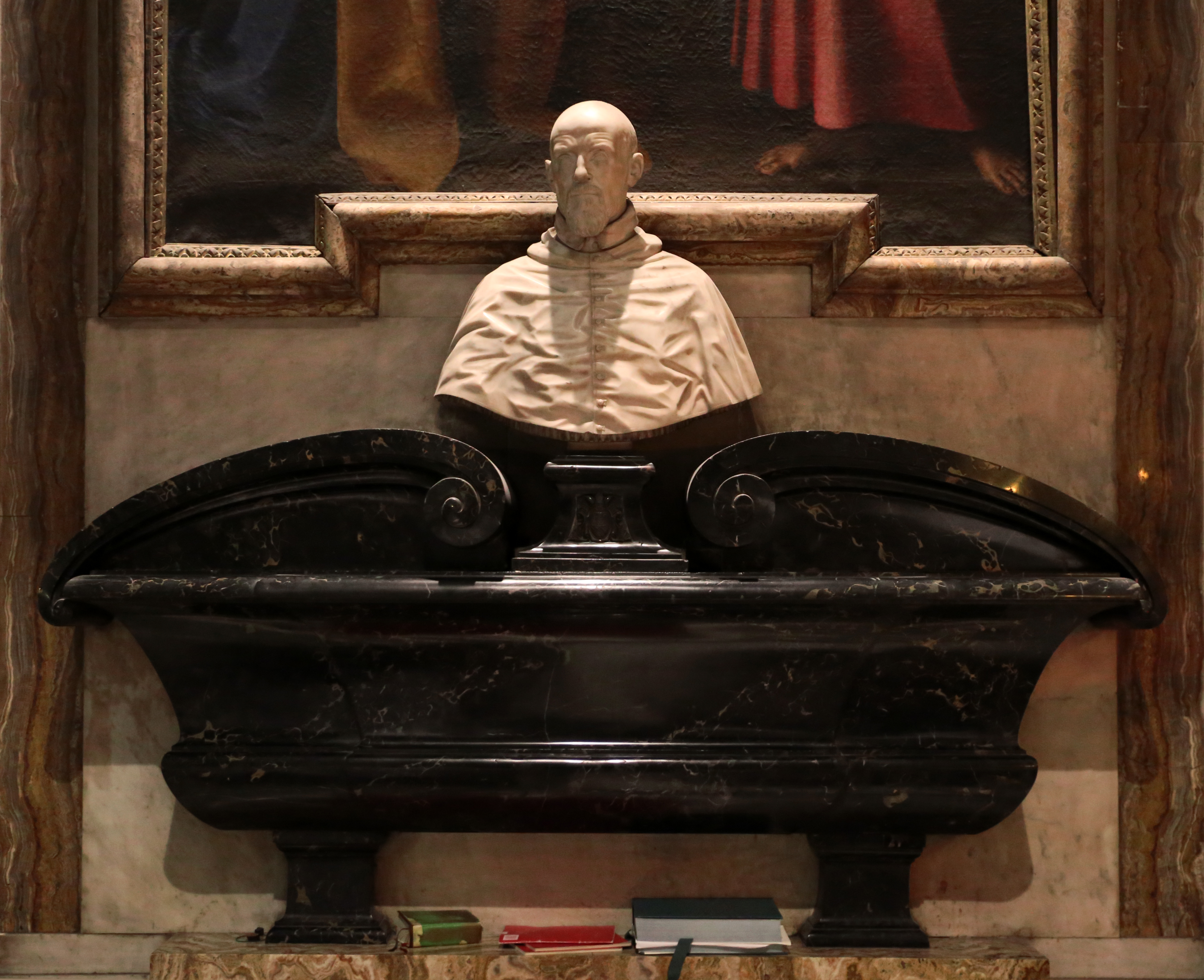 Santa Trinita (Florence) - Cappella Usimbardi